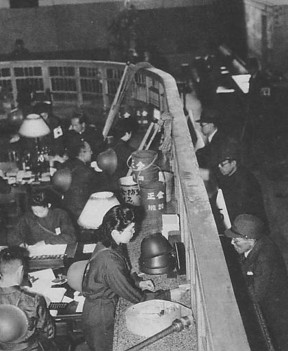 Yokohama Specie Bank during World War II